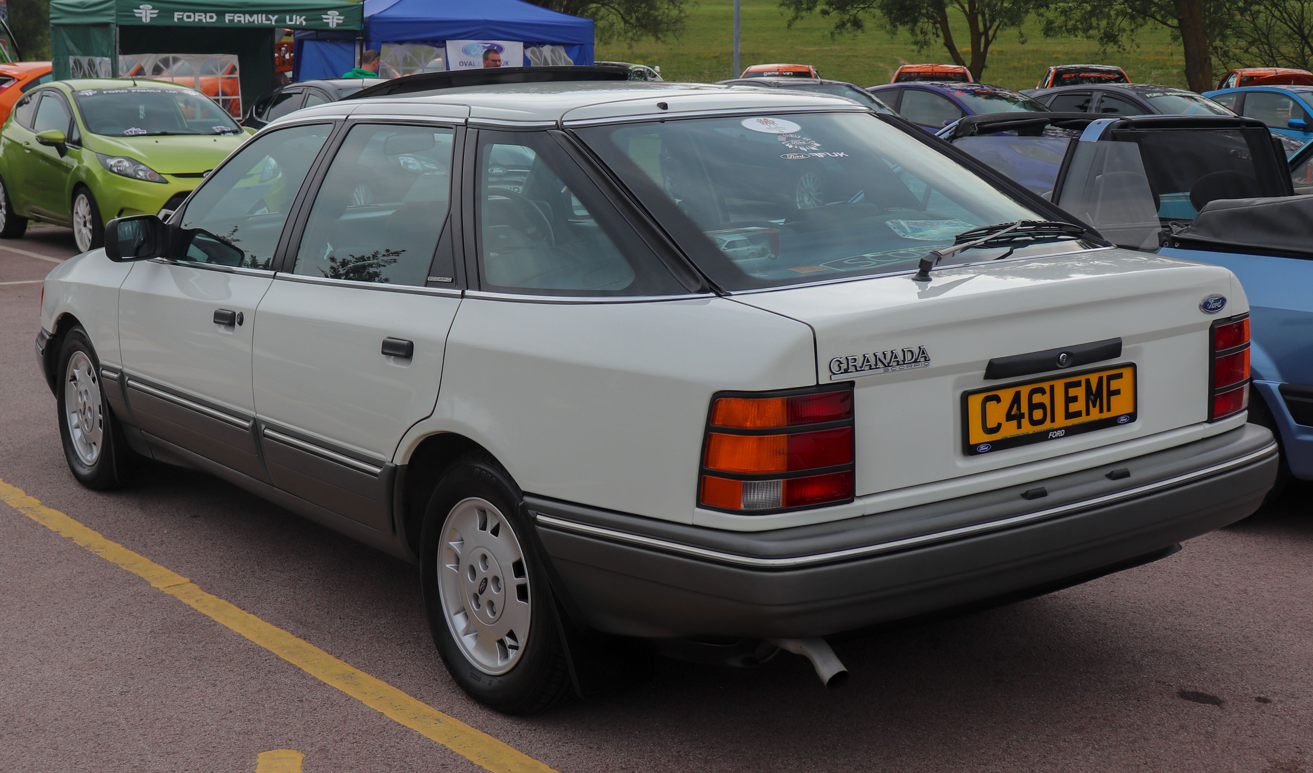 1985 Ford Granada Scorpio I Automatuc 2.8 Rear Taken at the Ford Nationals 2019, British Motor Museum, Gaydon